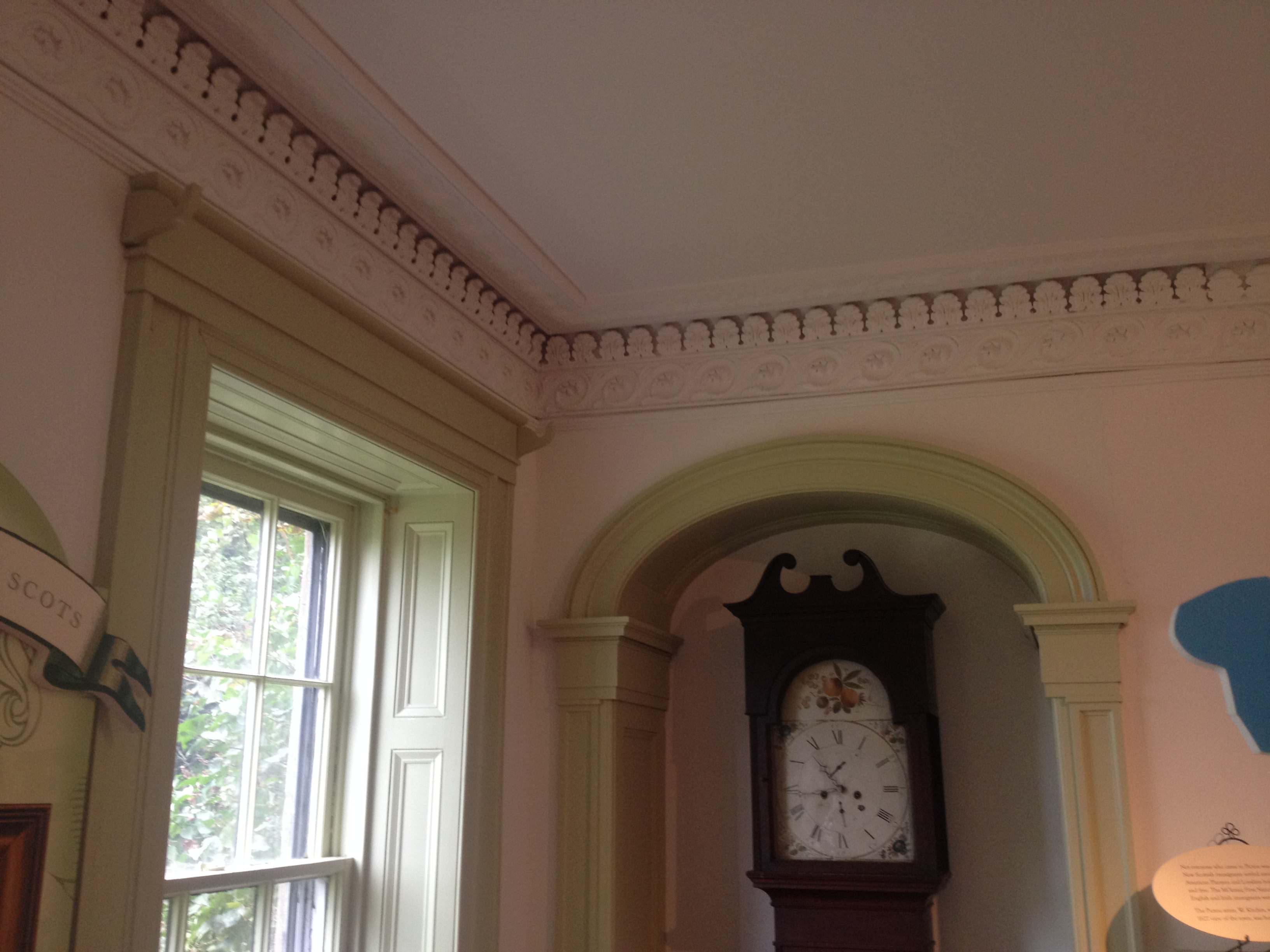 Some of the fine interior trim